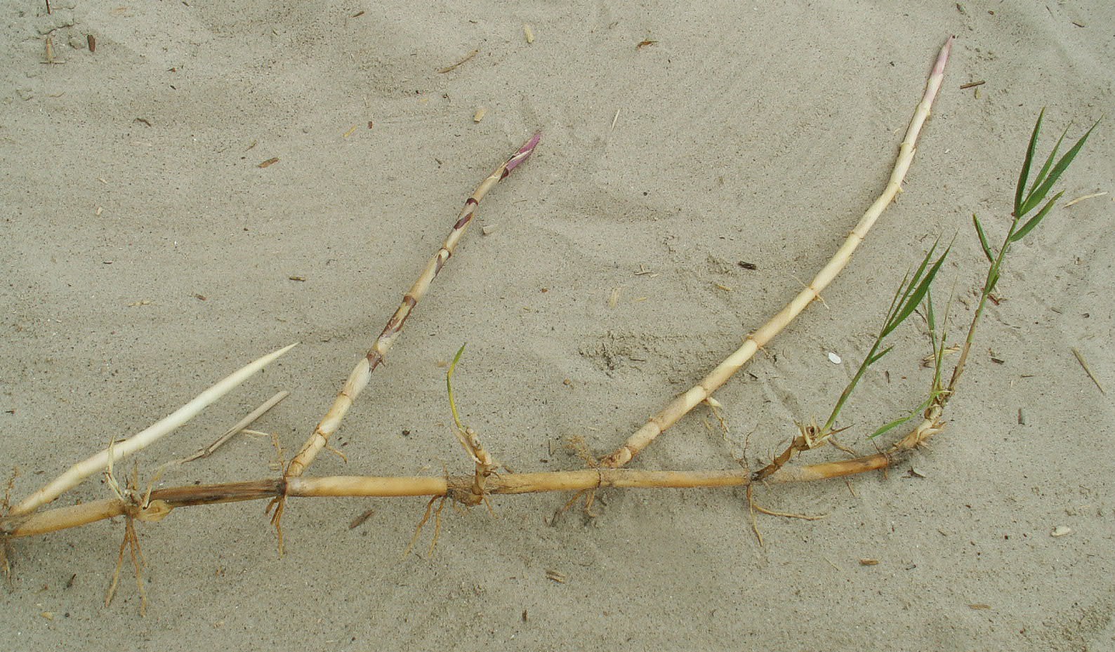 Rhizome of Phragmites australis. Dabie Lake in Szczecin, NW Poland